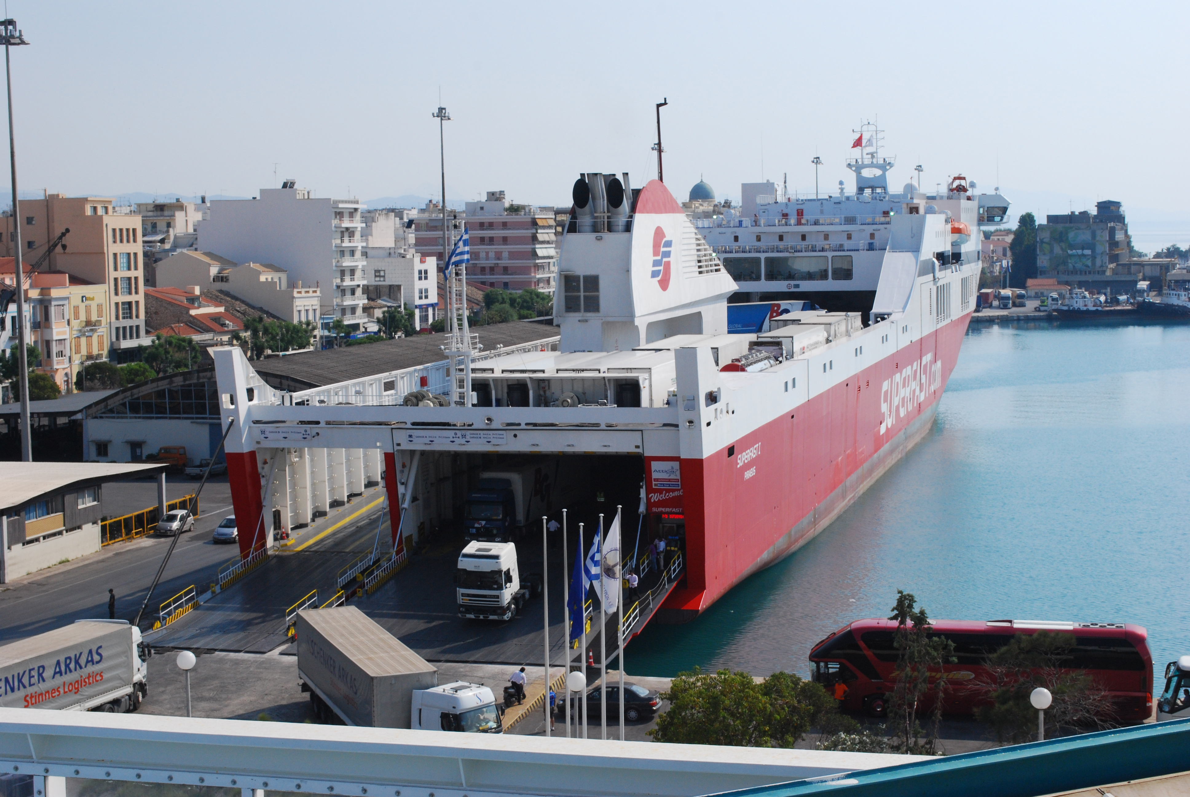 "Superfast I" of Superfast Ferries in Patras, picture taken from "Hellenic Spirit" of ANEK Lines.